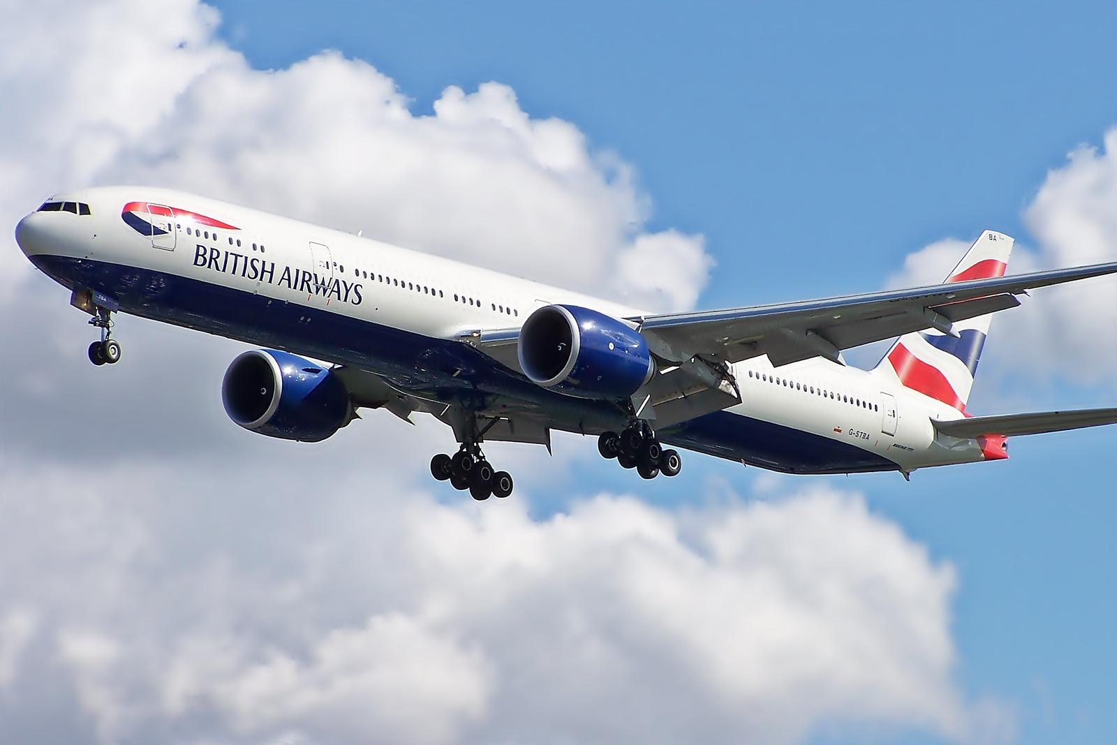 G-STBA Boeing 777-300 British Airways